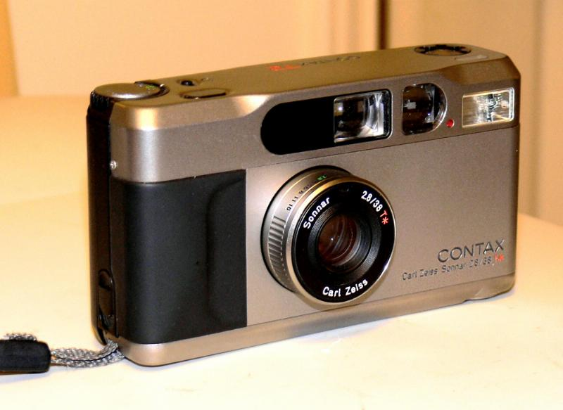 CONTAX T2 titanium body autofocus camera